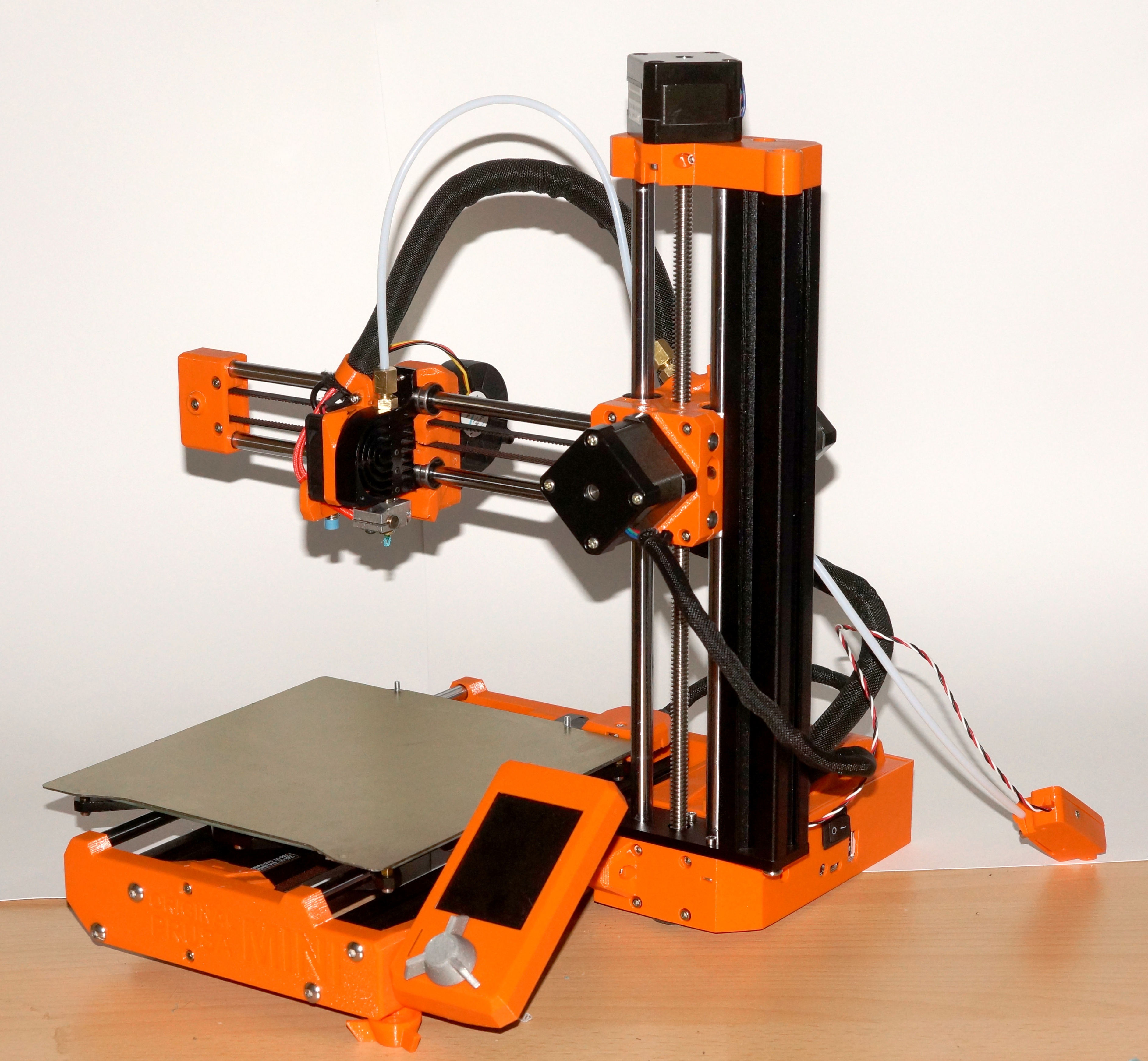 Maker-made Prusa Mini Clone based on China-sourced hardware and self-printed plastic parts.